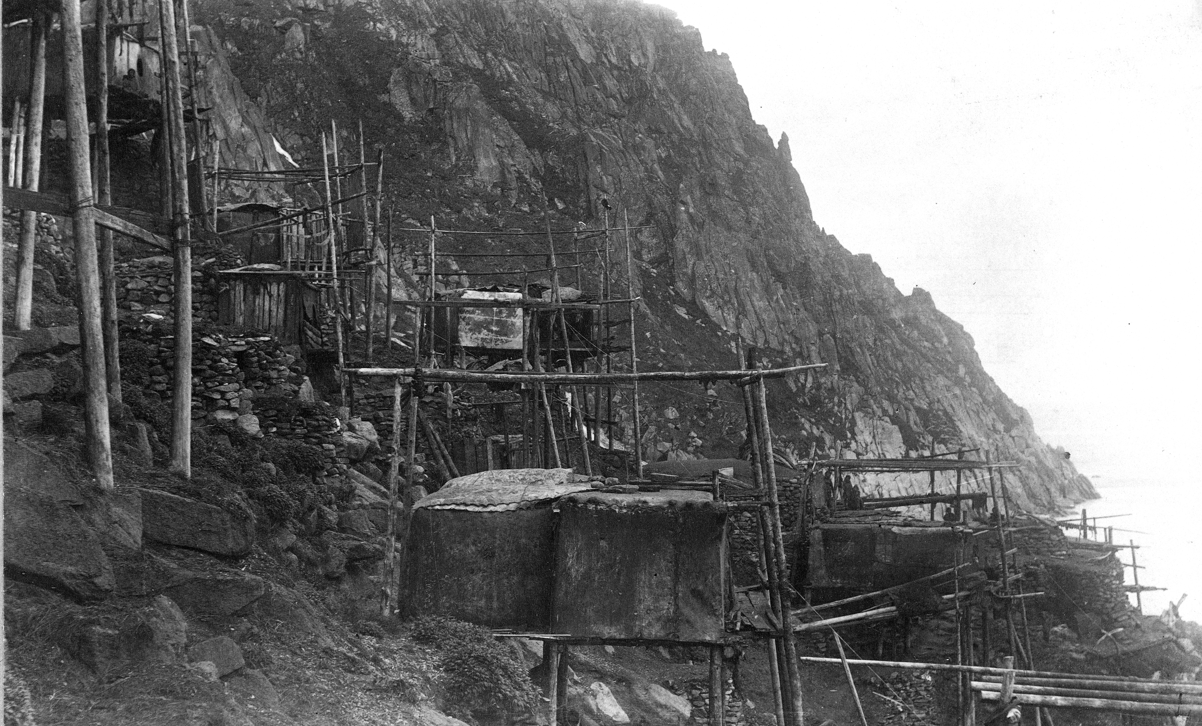 View of Kings Island Houses. Nome district, Seward Penensula region. Alaska. cc 1892. Stilt houses on a rocky bank, built of driftwood poles, planks, and hide or fabric covers. Some stone structures also visible. Several residents visible.